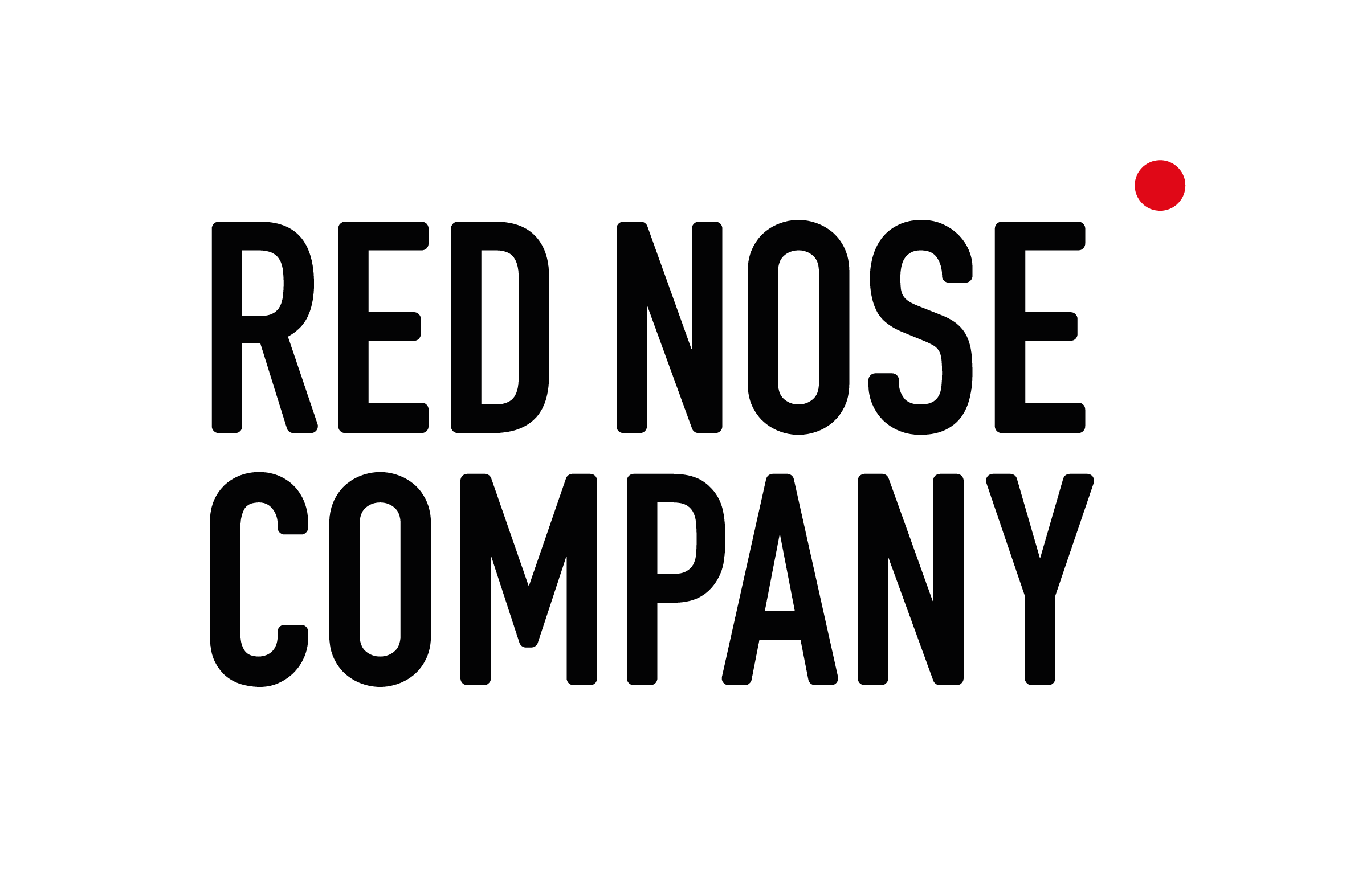 Red Nose Companyn logo, jonka on suunnitellut Tero Ahonen. Oikeudet Red Nose Companylla.